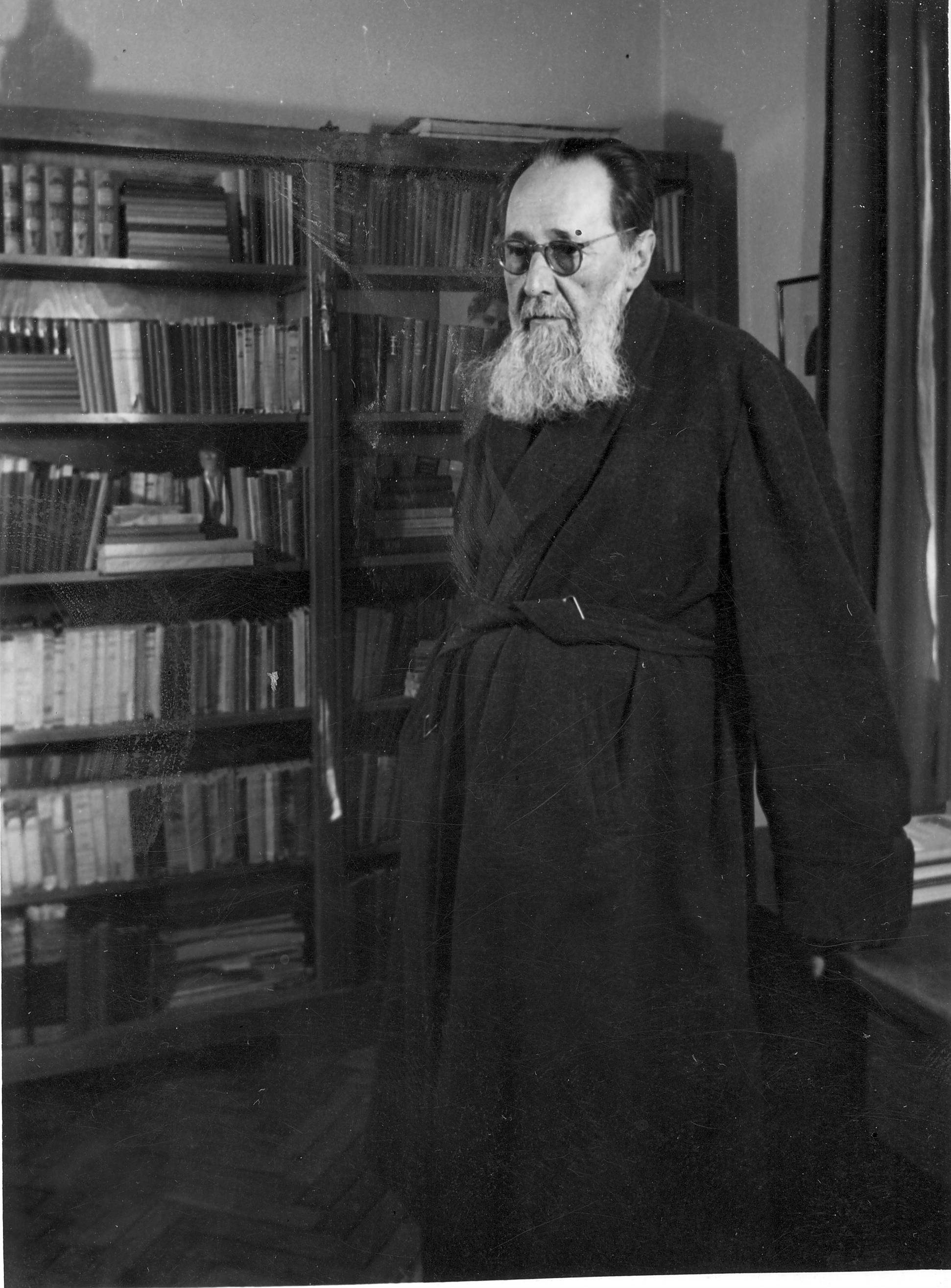 Romanian writer Ion Agârbiceanu